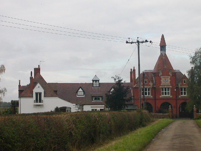 Lower Catesby. Guest House near the ruins of an Old Priory on Jurassic Way